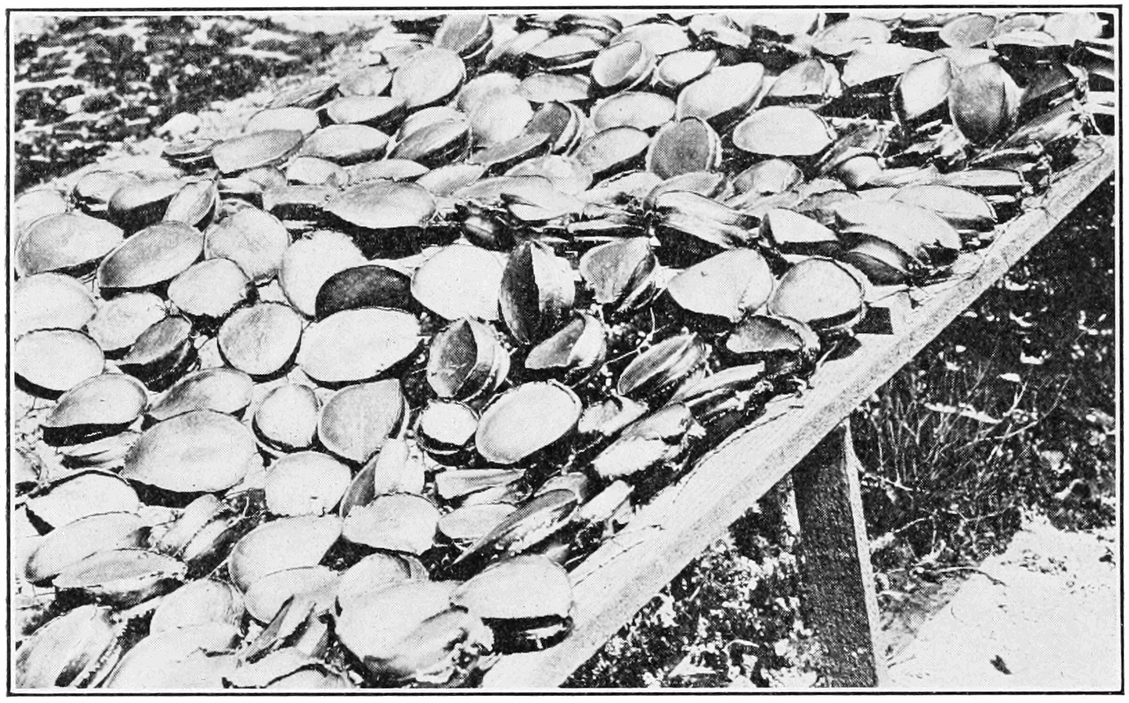 Sun dried meat of the green abalone Haliotis fulgens on san clemente island